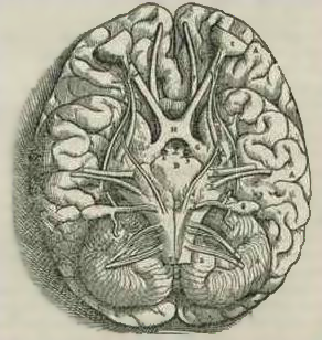 From the en:1543 book in the collection in National Institute of Medicine. Andreas Vesalius' Fabrica, showing the Base Of The Brain, including the cerebellum, olfactory bulbs, optic nerve.